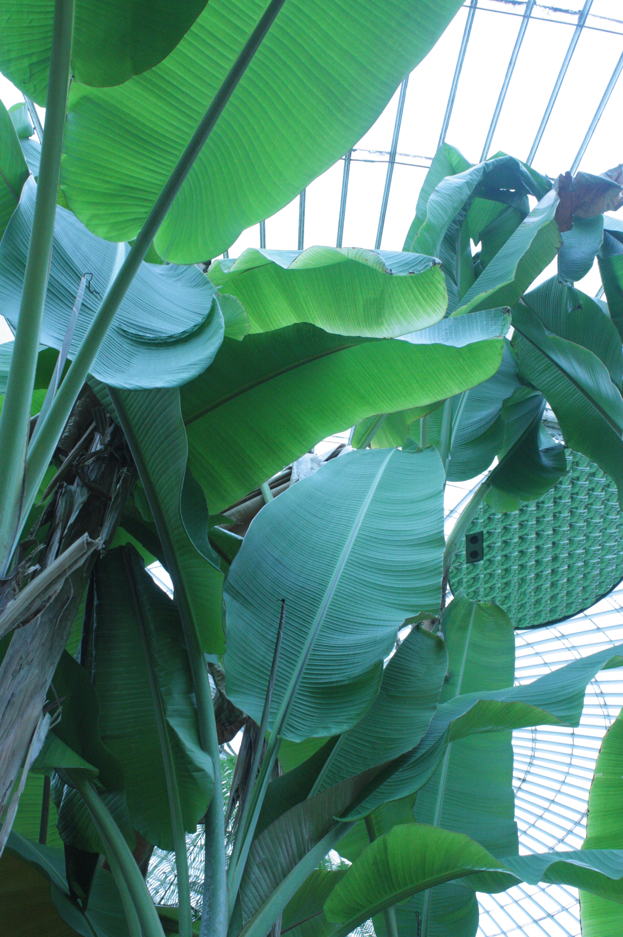 Musa basjoo, Glasgow Botanic Gardens